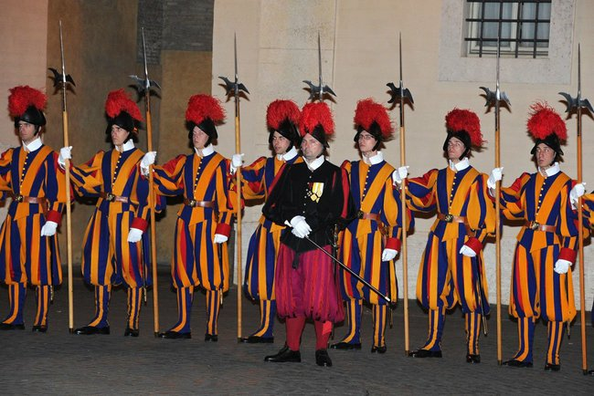 Pontifical Swiss Guards at president Putin meeting. Vatican, 25 nov 2013.